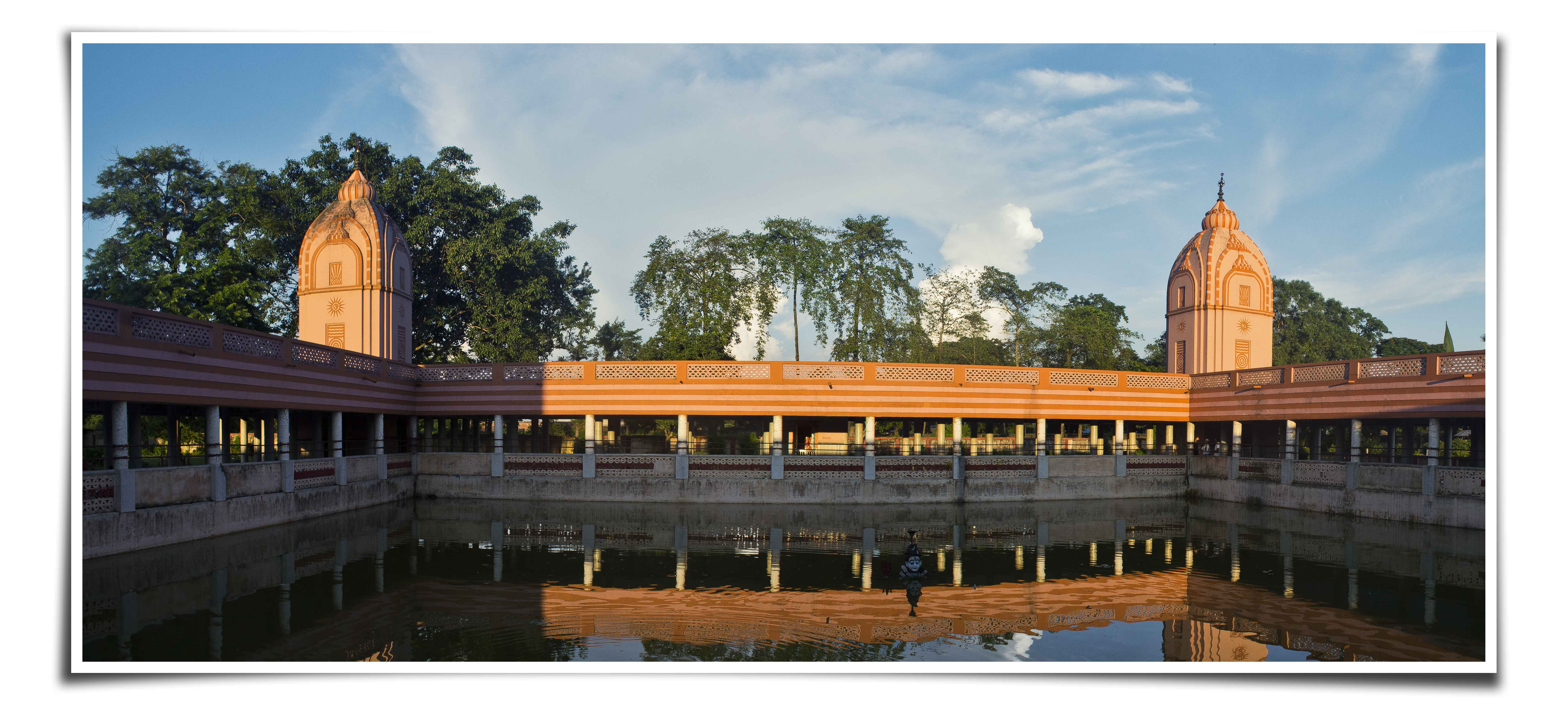 A Panoramic view of Shiv Dham